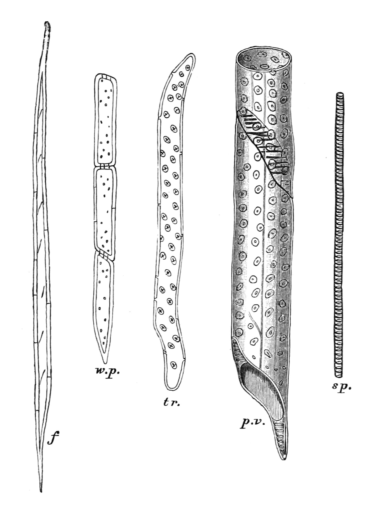 Fig. 16.— The various chief elements of the wood of the oak, isolated by maceration, and highly magnified. f, a fiber, distinguished by its thick walls, simple slit-like pits, and no contents; w.p, part of a row of wood-parenchyma cells, with simple pits, and containing starch in winter; tr., a tracheid, distinguished from the fiber especially by its bordered pits; p.v, part of a rather large pitted vessel, made up of communicating segments, each of which corresponds to a tracheid, and has bordered pits on its walls; sp. part of a spiral vessel.